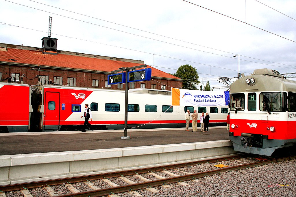 Festival for the railway opening between Kerava and Lahti at Lahti railway station in Lahti, Finland on 1 September 2006. The railway was planned in 1998 and completed in 2006. The train: VR Class Sm3 (Pendolino) for the guests of the Finnish Rail Administrator and the rail operator the Finnish Railways. A VR Class Sm2 electric multiple unit (no. 6078/6278) also seen on the right. References: The Finnish Railway Administration (in English) The Finnish Railways (in English)